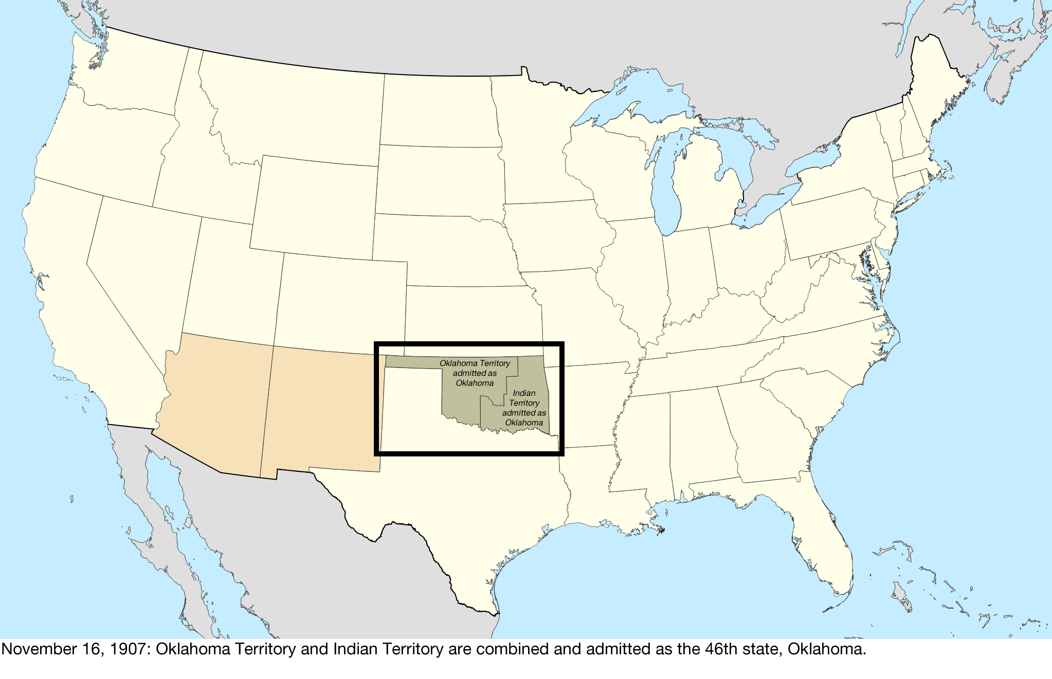 Map of the change to the United States in central North America on November 16, 1907.